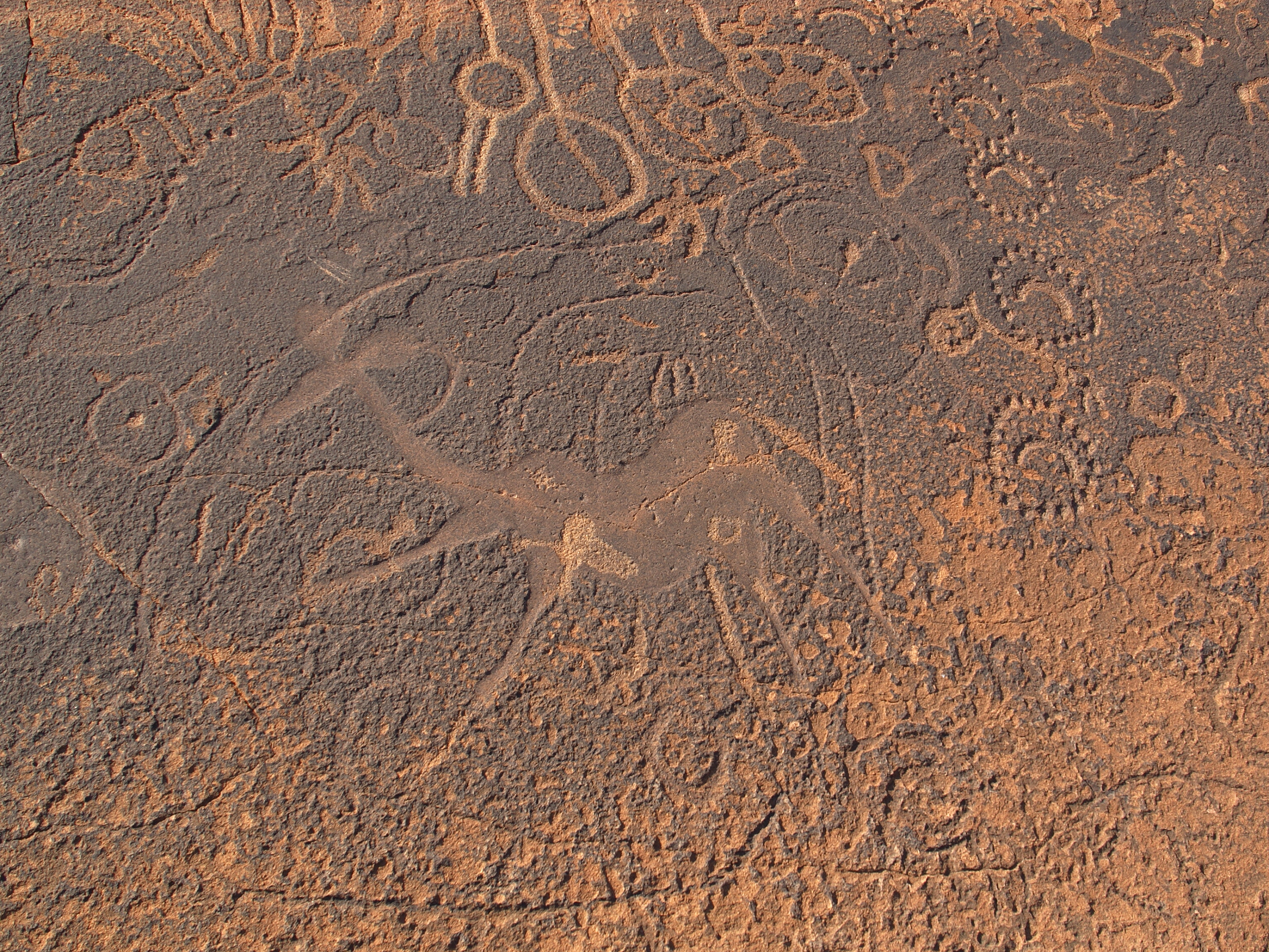 San (the 'dancing' Kudu) and Khoekhoen (the abstract figures) art at Twyfelfontein, Namibia.